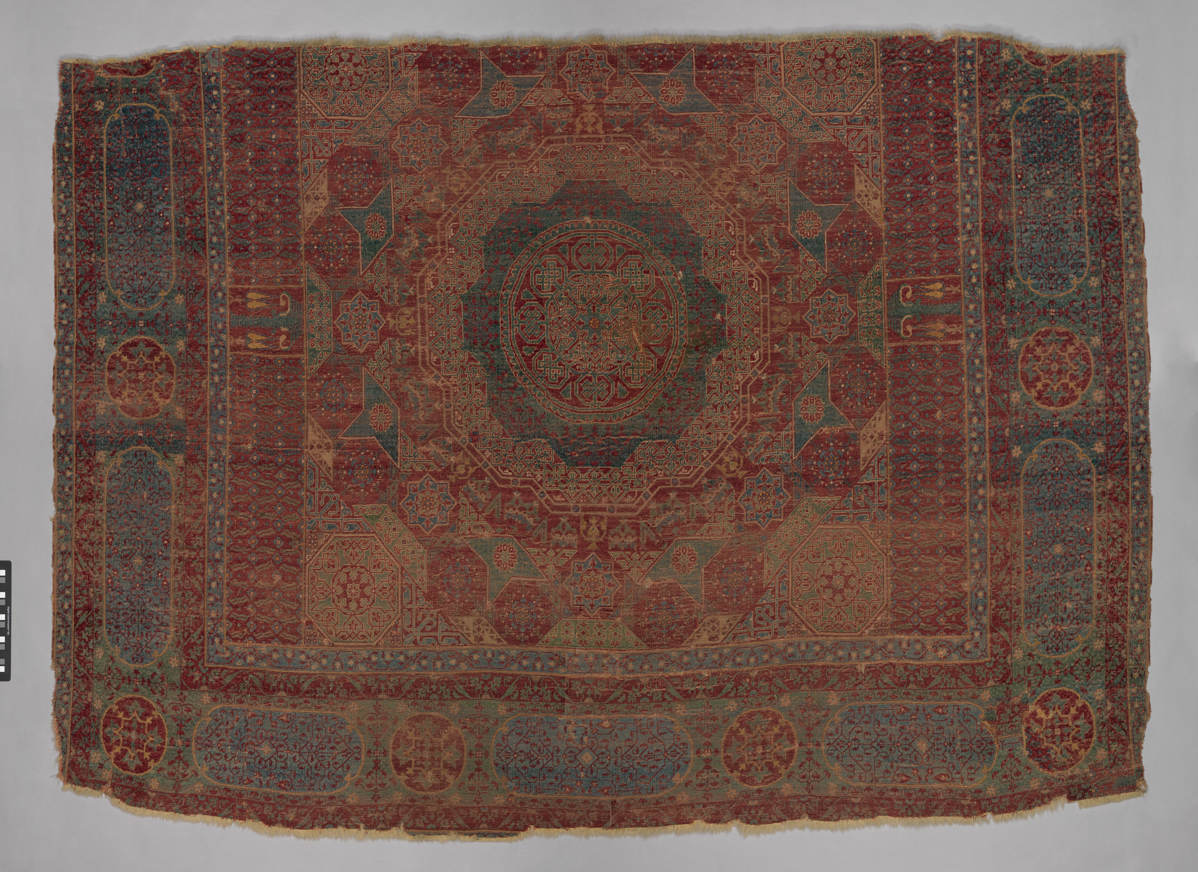 Carpet; Textiles-Rugs